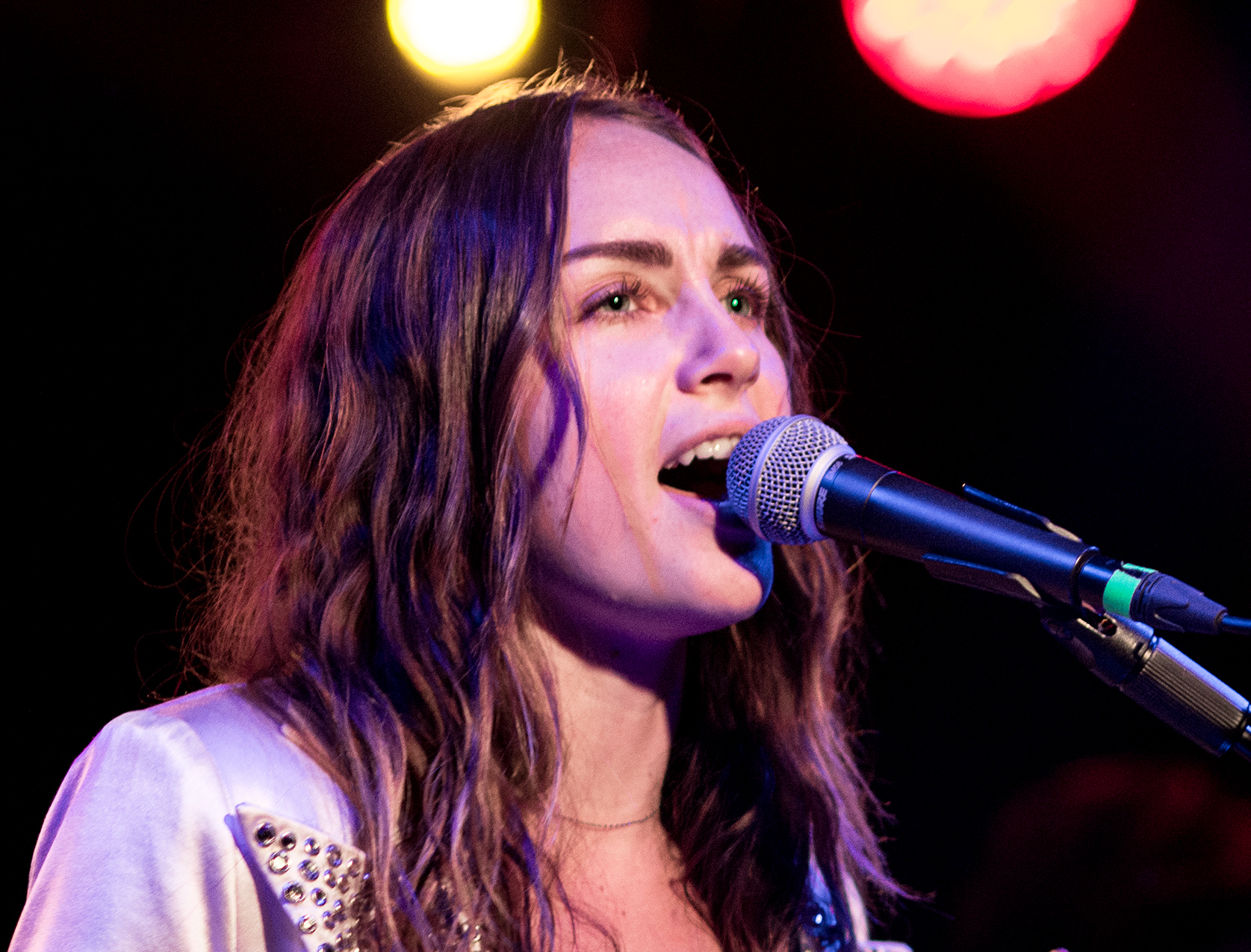 Zella Day performing live at the Moroccan Lounge in downtown Los Angeles, California, on Tuesday, November 21, 2017. Zella was the special guest of Korey Dane.